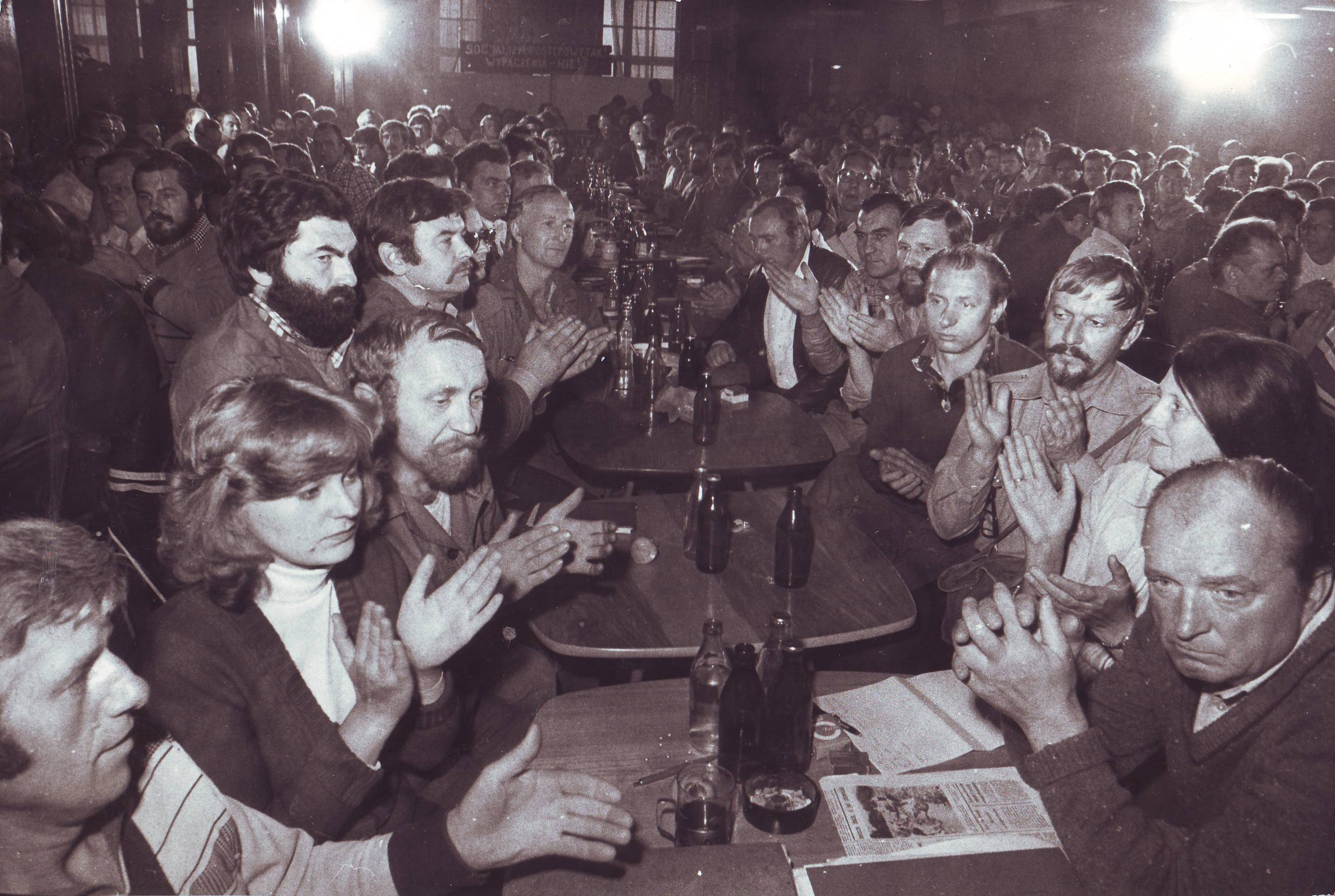 Worker delegates in Szczecin Shipyard during September 1980 crisis in Poland.